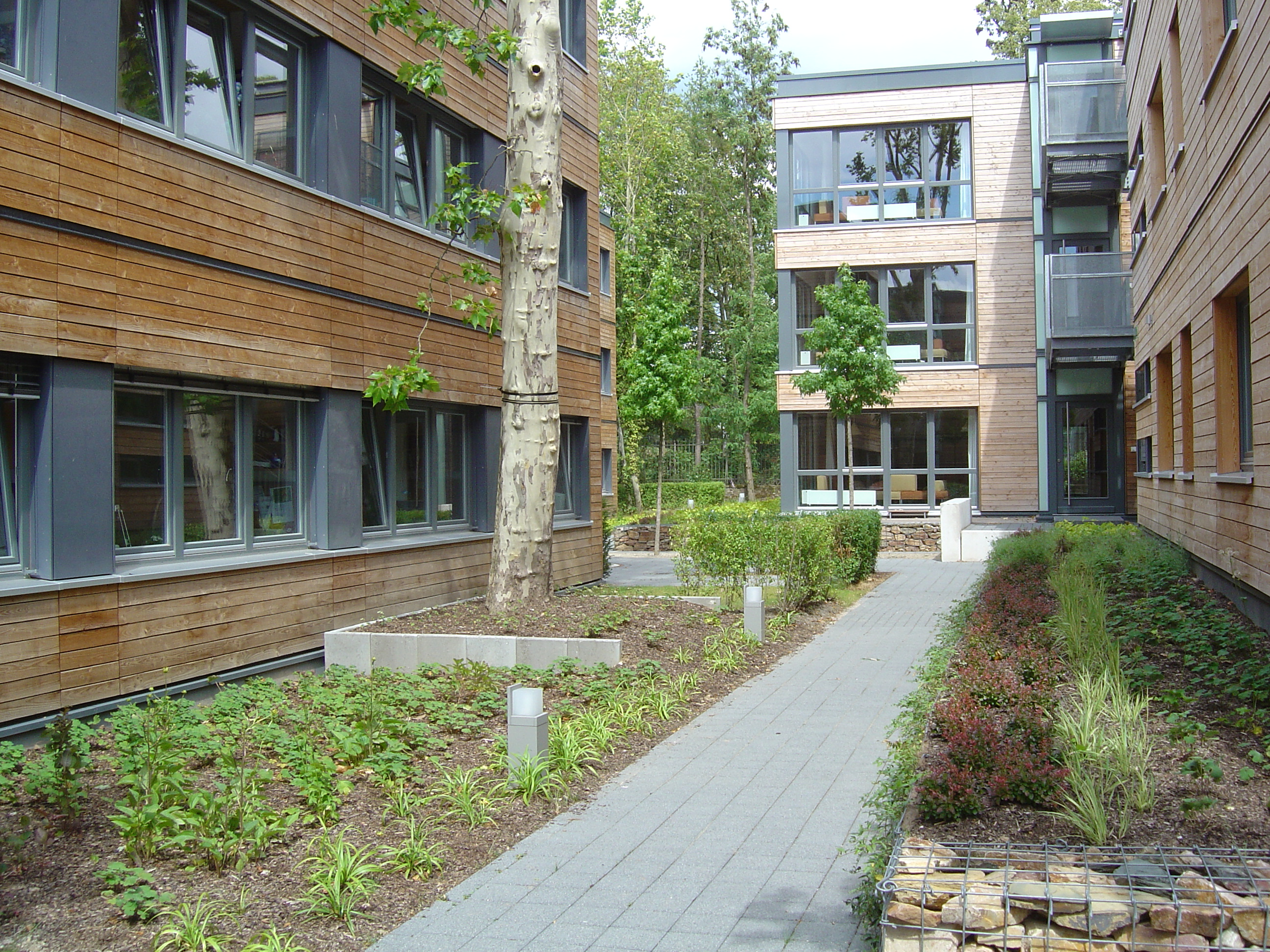 Boarding houses of Internatsschule Schloss Hansenberg, Johannisberg (Geisenheim), Germany